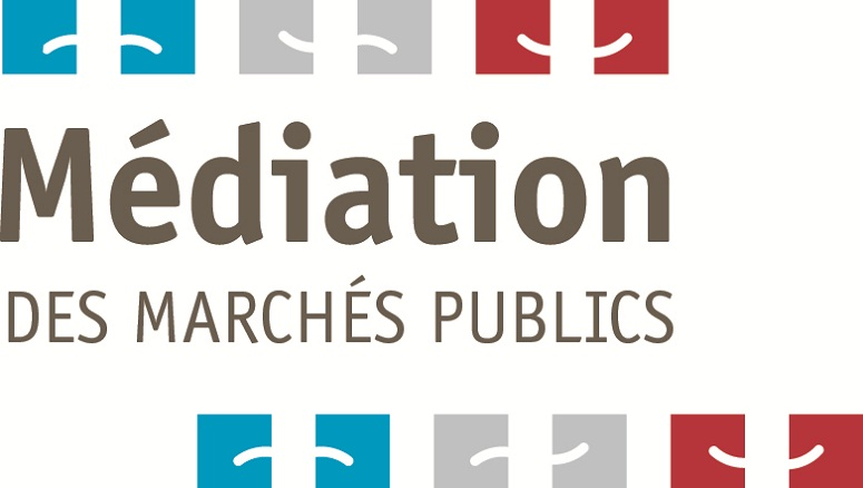 logo of the Médiation des Marchés publics